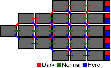 A diagram showing how completing Hero, Dark, or Normal missions on the video game Shadow the Hedgehog affects the game's storyline.